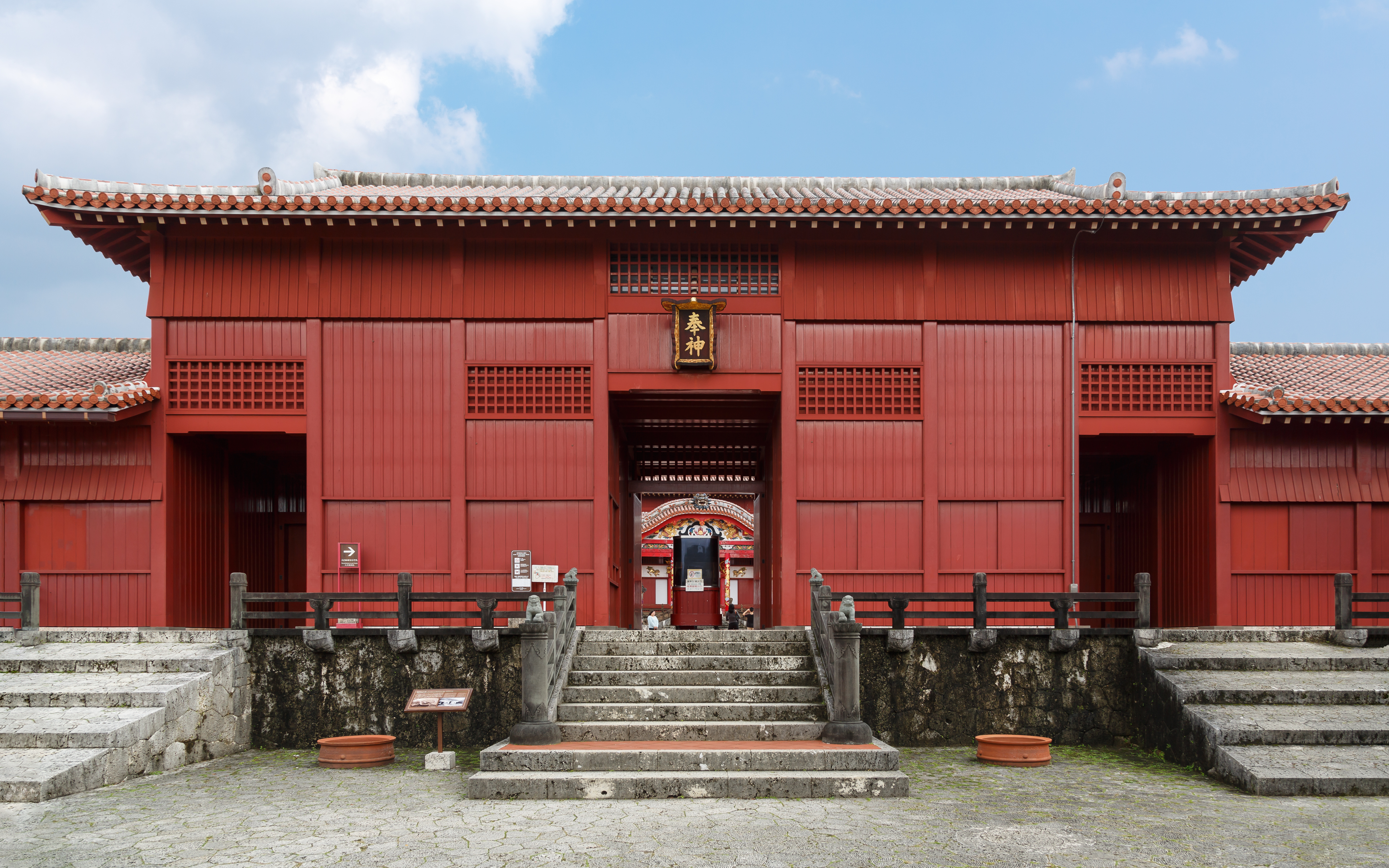 Naha, Okinawa, Japan:Hoshimmon (Kimihokori-Ujo) Gate to the inner yard of Shuri Castle.